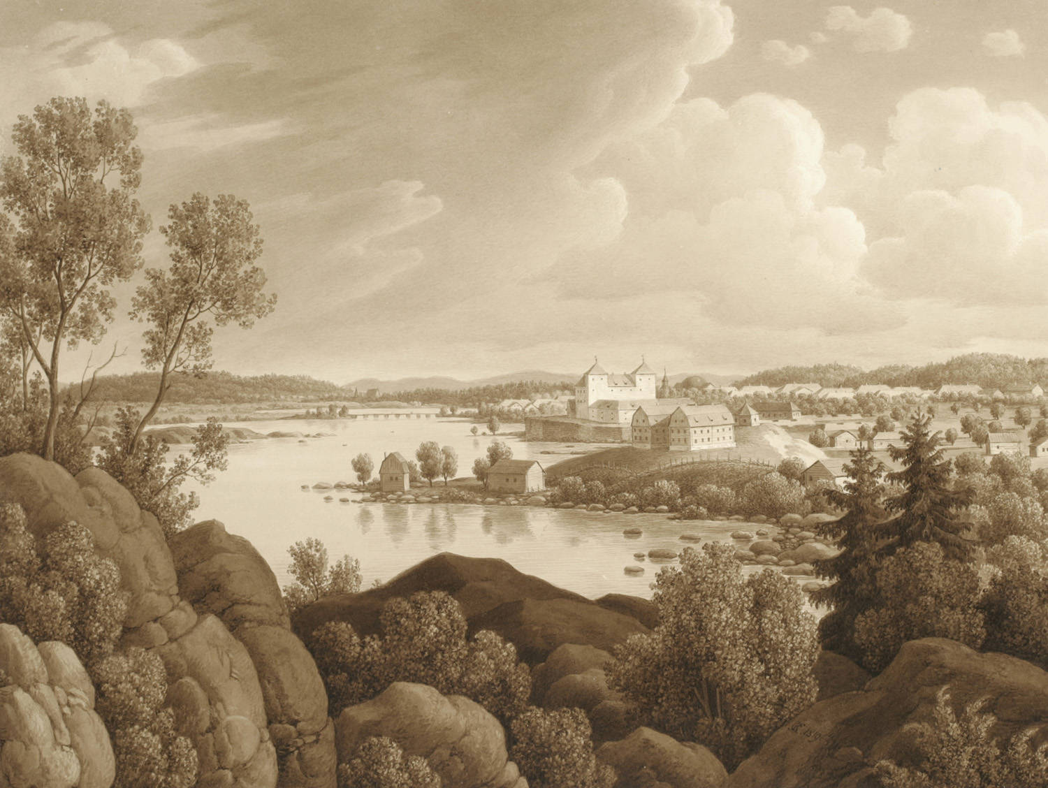 View of the Countryside near Tavastehus (From a series of Views of Finland), 1819. Pen and brown wash over a pencil sketch. 32.3 x 43.5 cm (12 11/16 x 17 1/8 in.).